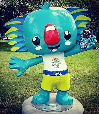 Borobi Statue on Gold Coast, April 2018. On Borobi Fan trail